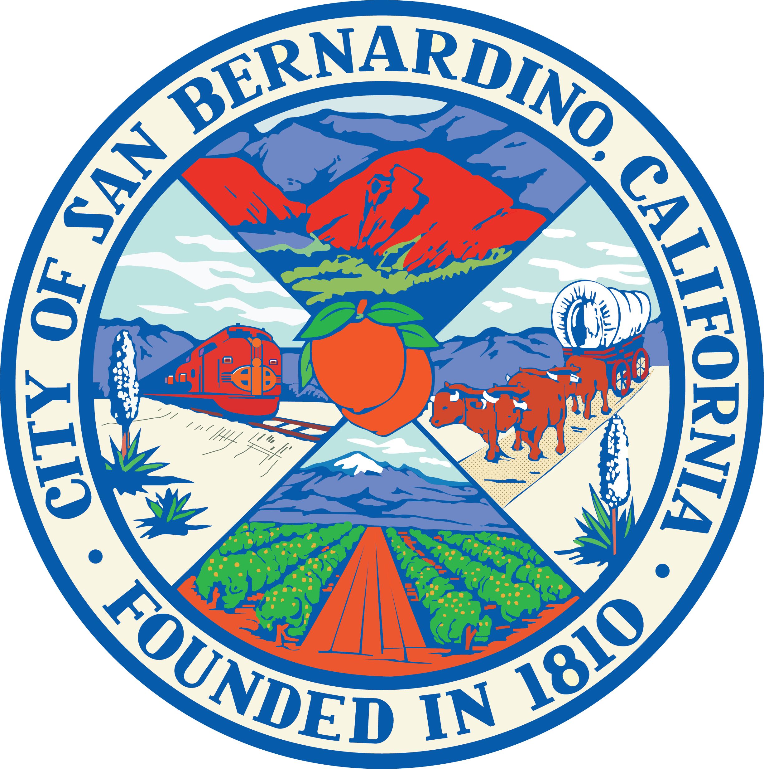 Seal of San Bernardino, California